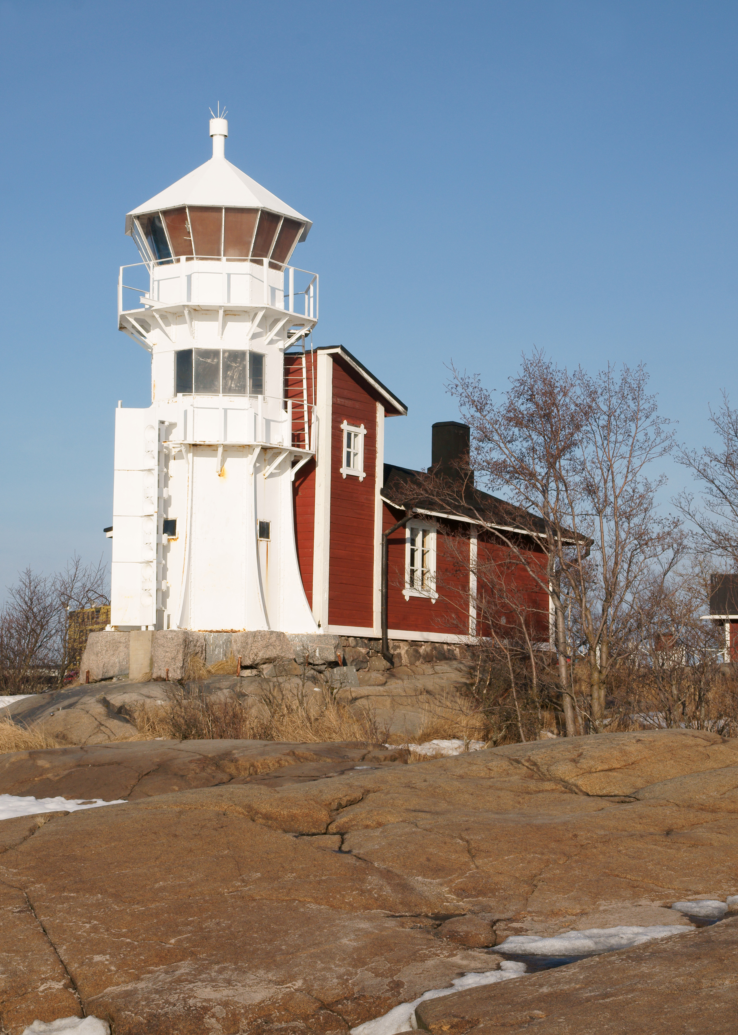 Kallo lighthouse in Pori, Finland.